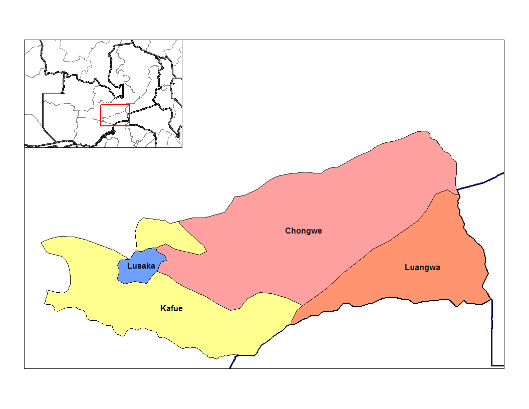 Map of the districts of Lusaka province in Zambia. Created by Rarelibra 15:35, 28 December 2006 (UTC) for public domain use, using MapInfo Professional v8.5 and various mapping resources.